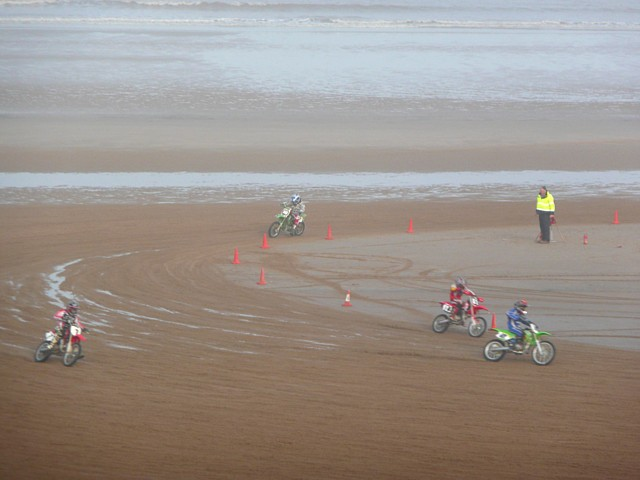 Motorcycle racing on the beach, Mablethorpe This is during one of Mablethorpe Motor Cycle Sand Racing Club's events. The curve at each end of the circuit is difficult. The riders who take risked close to the cones gain considerable distance each lap over the more cautious ones who take the bend wide.